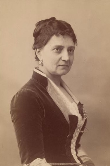 Picture taken between 1879 and 1885